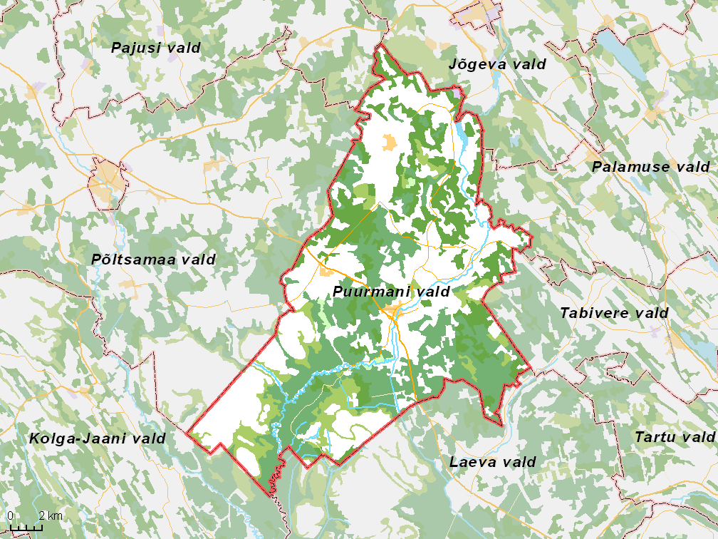 Map of municipality in Estonia